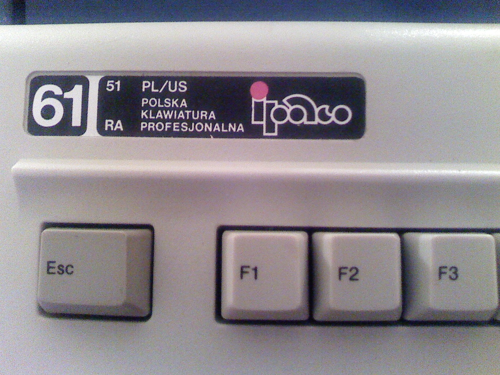 Mazovia-coded IPACO?NBP keybord